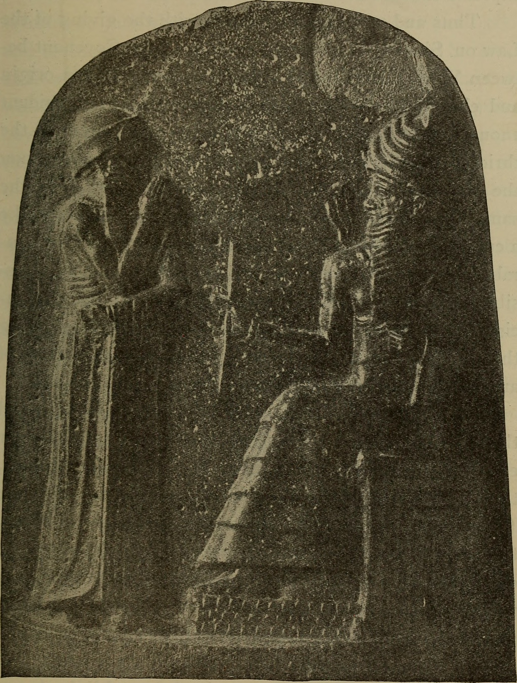 Title: Babel and Bible; Year: 1906 (1900s) Authors: Delitzsch, Friedrich, 1850-1922 McCormack, Joseph, 1865- (from old catalog) tr Carruth, William Herbert, 1859-1924, (from old catalog) tr Robinson, Lydia Gillingham, b. 1875, tr Subjects: Bible Publisher: Chicago, The Open court publishing company Text Appearing Before Image: Fig. 76. A Portion of the Inscription of the Laws of Hammurabi. the King says that he, the sun of Babylon, which sheds the light over North and South in his land, has written down these laws, nevertheless he in his turn received them from the highest judge of heaven and earth, the Text Appearing After Image: Fig. 77. Hammurabi Before Shamash, the God of Law. Sun god, the lord of all that is called right, and there-fore the mighty tablet of the law bears at its head the beautiful bas-relief (Fig. 77), which represents Hammu-rabi in the act of receiving the laws from Shamash, thesupreme law-giver. Thus and not otherwise was it with the giving of the Law on Sinai, the so-called making of the Covenant between Yahveh and Israel. For the purely human origin and character of the Israelitic laws are surely evident enough! Or is any one so bold as to maintain that the thrice holy God, who with his own finger engraved upon the stone tablet lo tirzach thou shalt not kill, in the same breath sanctioned blood-vengeance, which rests like a curse upon Oriental peoples to this day, while Hammurabi had almost obliterated the traces of it? Or is it possible that any one still clings to the notion that circumcision, which had for ages before been customary among the Egyptians and the